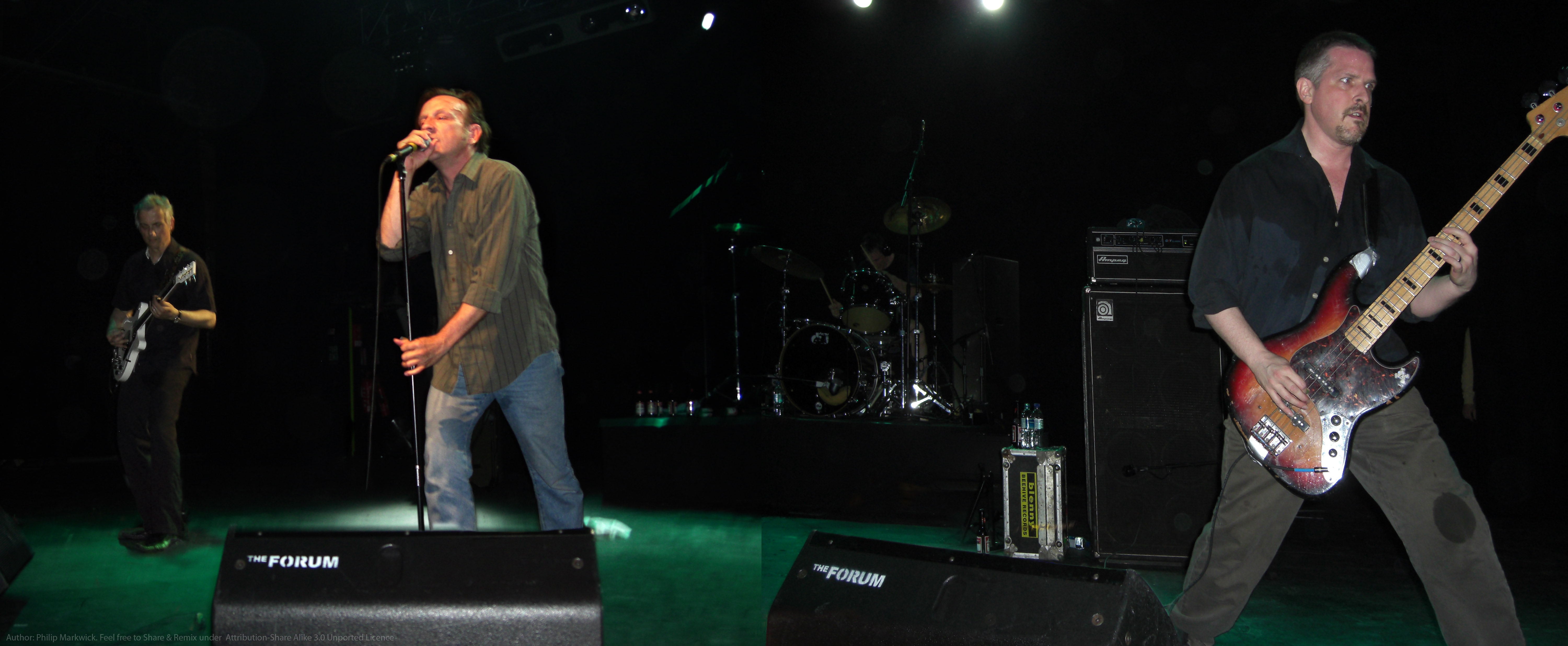 Jesus Lizard Playing at The Forum in London.